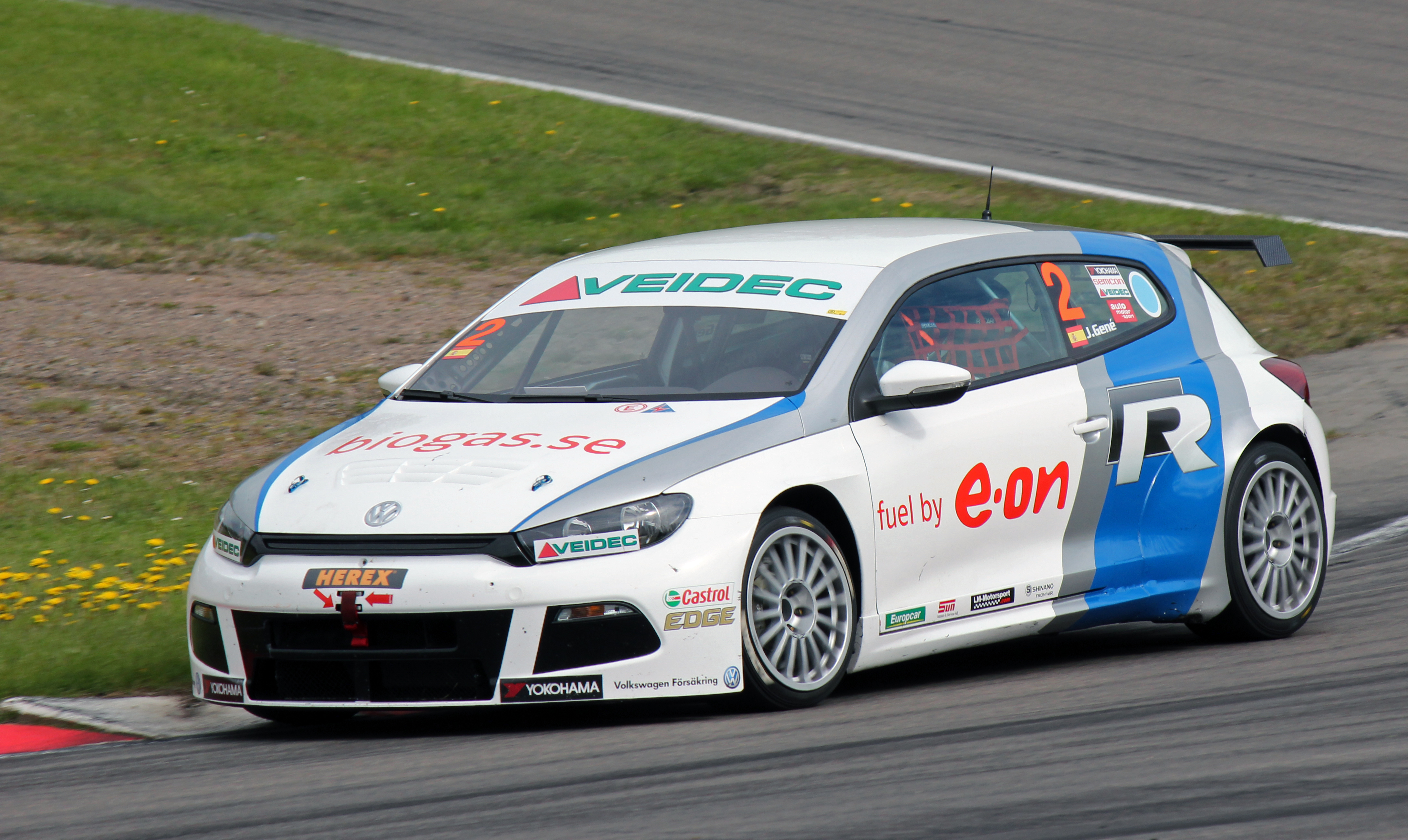 Jordi Gené in his Volkswagen Scirocco for Volkswagen Team Biogas at Ring Knutstorp in the 2012 Scandinavian Touring Car Championship.